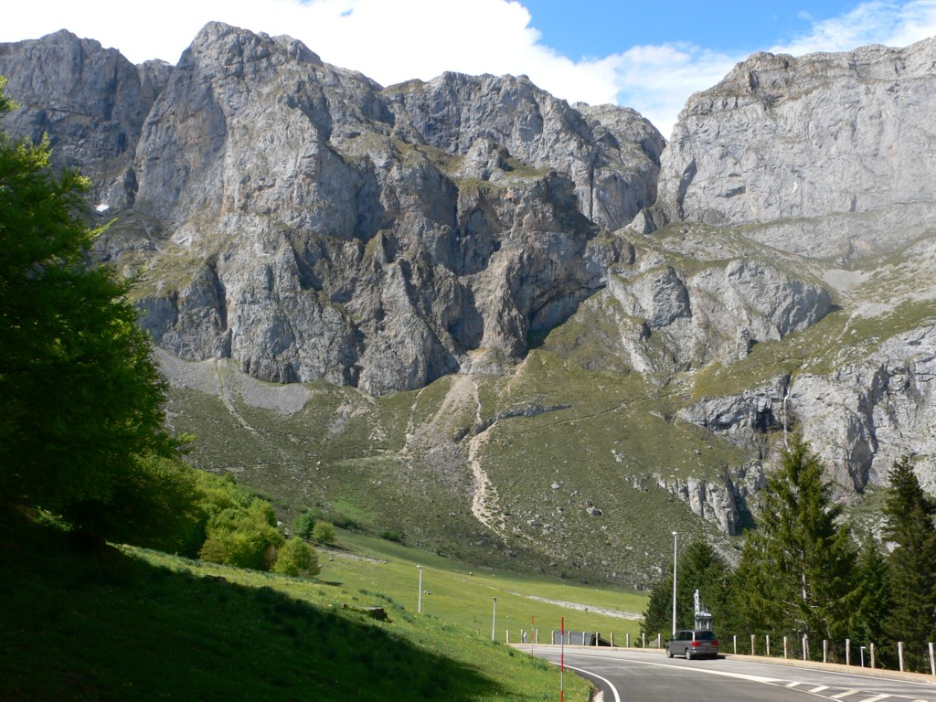 Picos de Europa at Fuente De